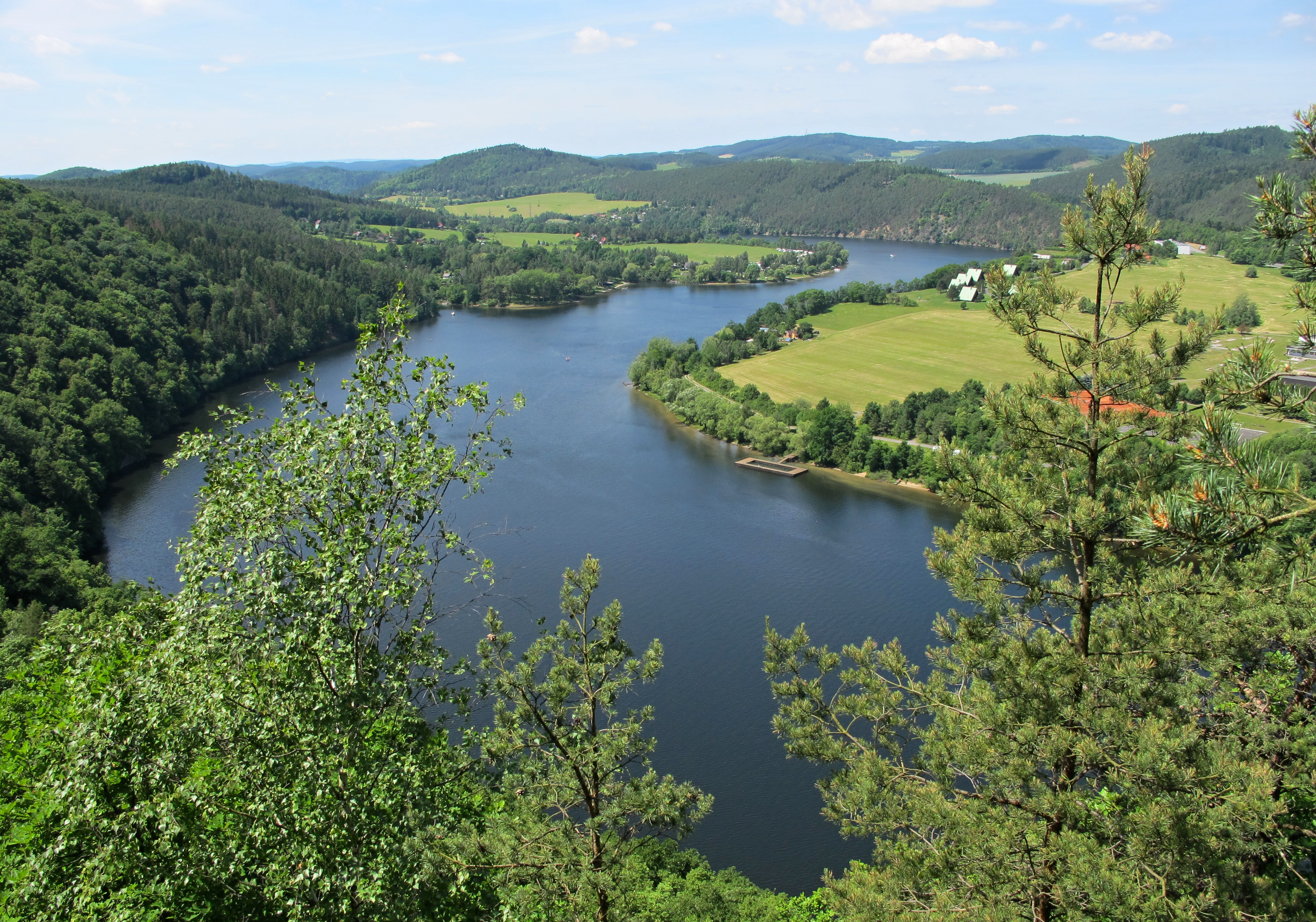 National nature reserve Drbákov-Albertovy skály near Nalžovické Podhájí in Příbram District